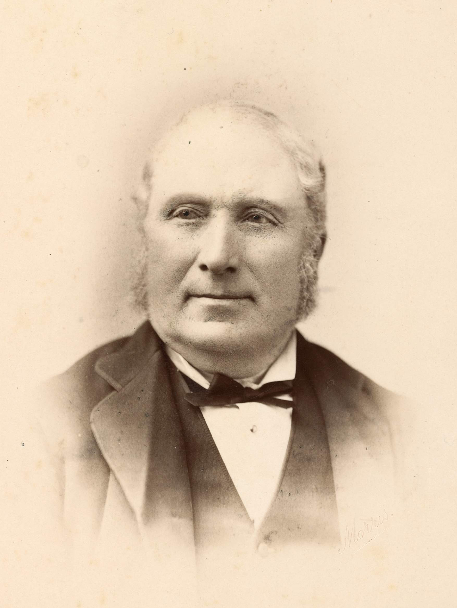 Studio portrait of Edward Dobson for a cabinet card. According to the back of the file print it was used as a brylcreem advertisement in the Massey Capping magazine.